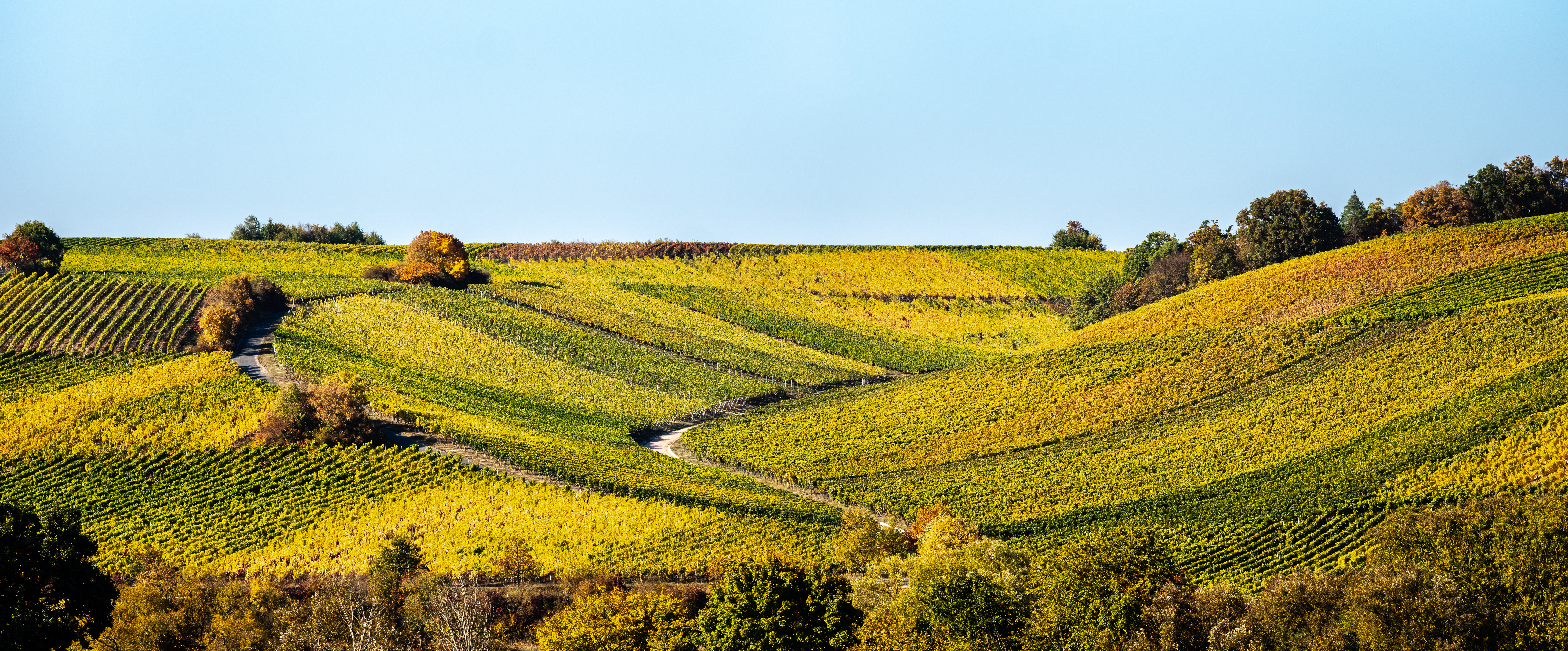 Vineyards on the Main between Volkach and Fahr